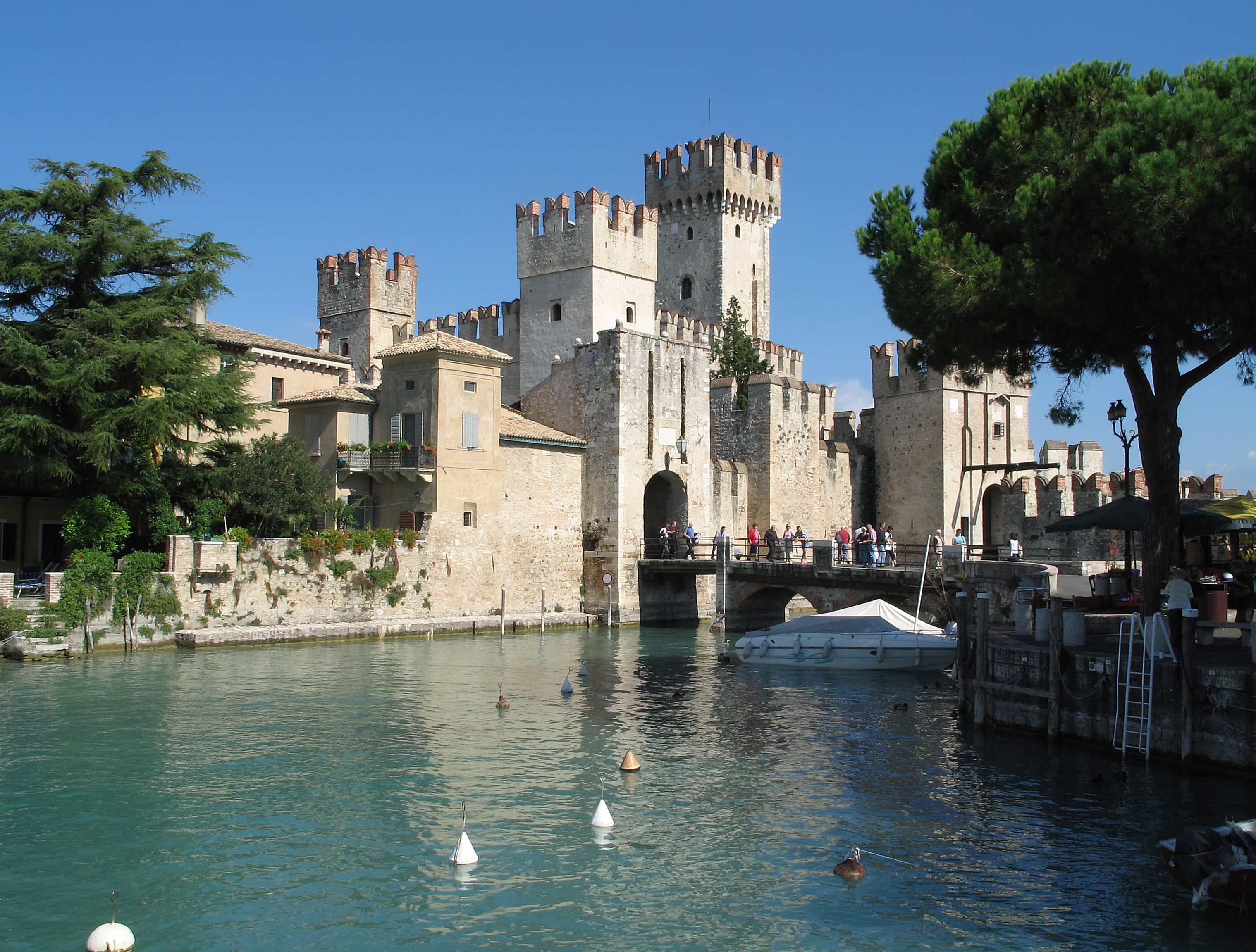 Sirmione Castle in 2006